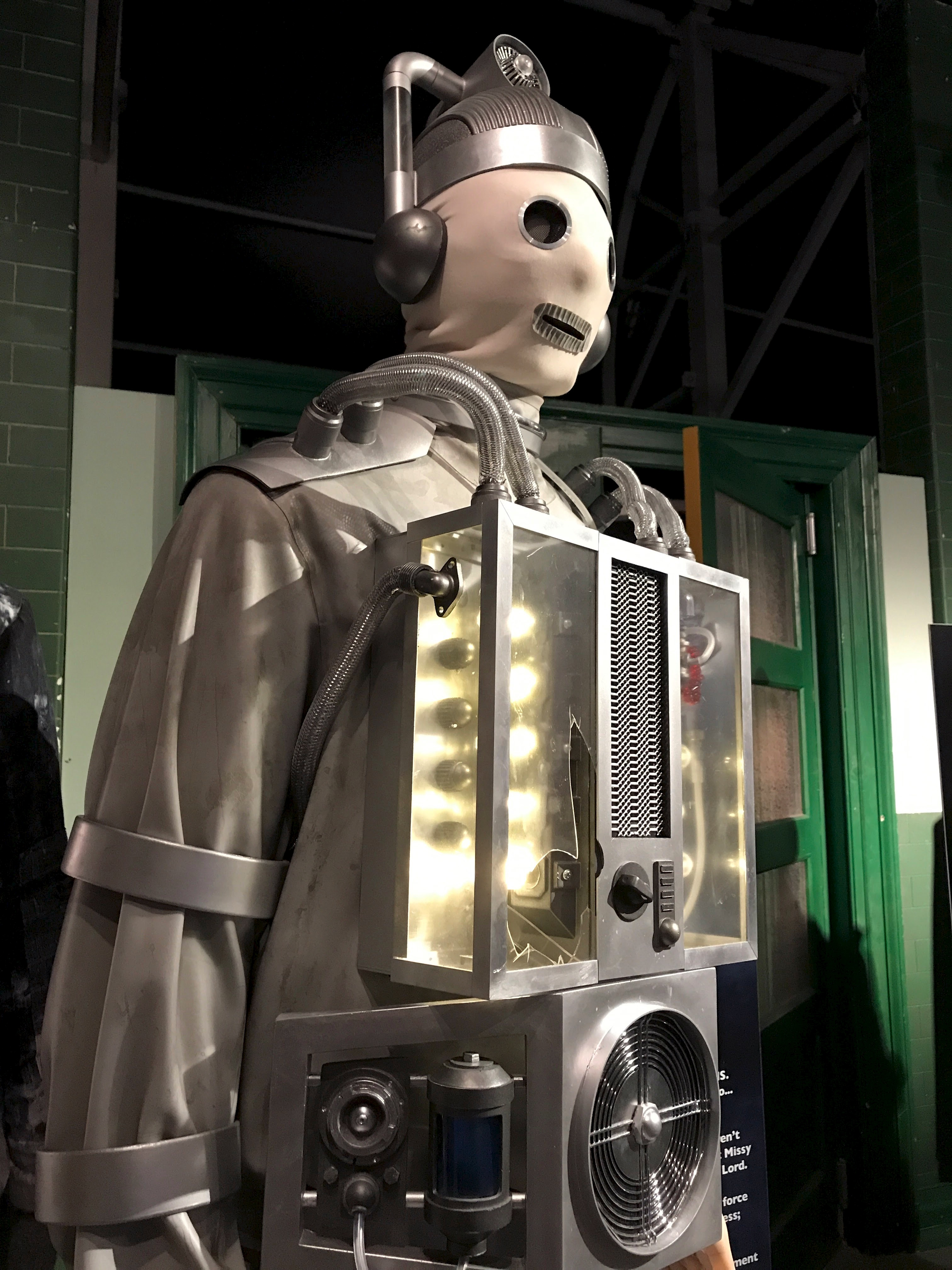 IMG_9422 Doctor Who Experience series 10